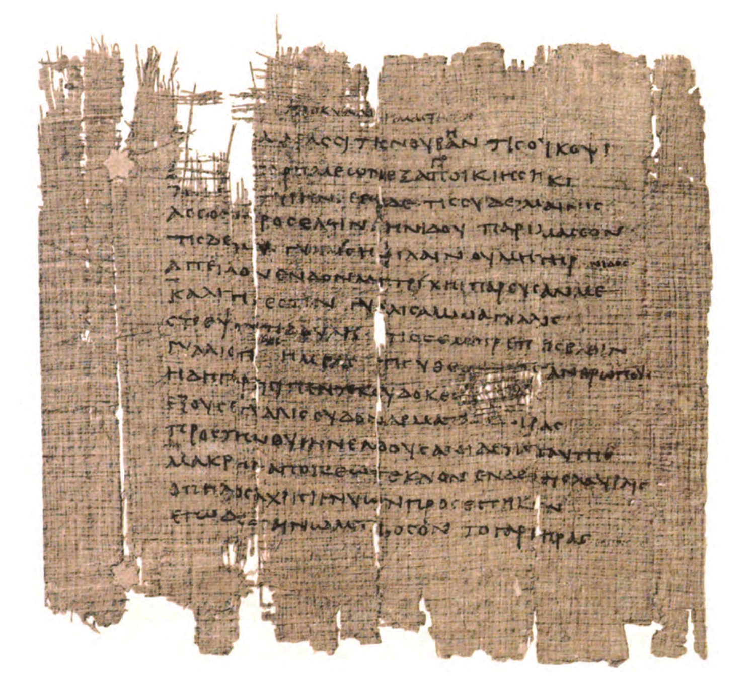 P.Lit.Lond. 96 col. i: Herodas, Mimiamb 1. 1–15.